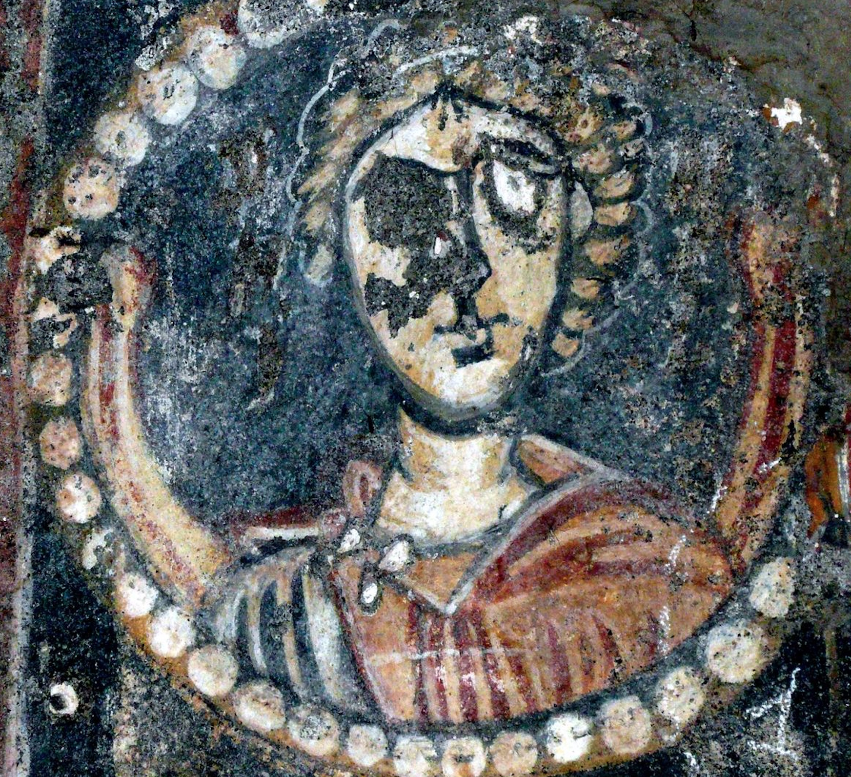 Damaged fresco of the archangel Uriel at the Hypogeum of San Biagio, Castellammare di Stabia, Campania, Italy.